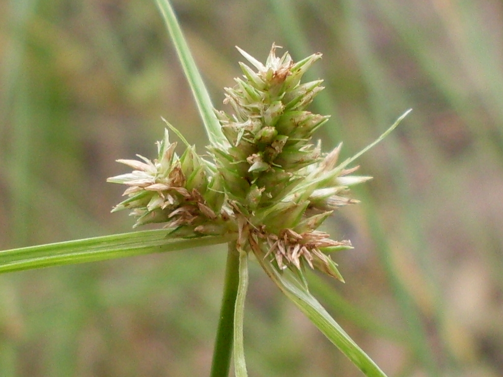 Cyperus aggregatus is a weed of sandy soils. Como NSW Australia, January 2009.